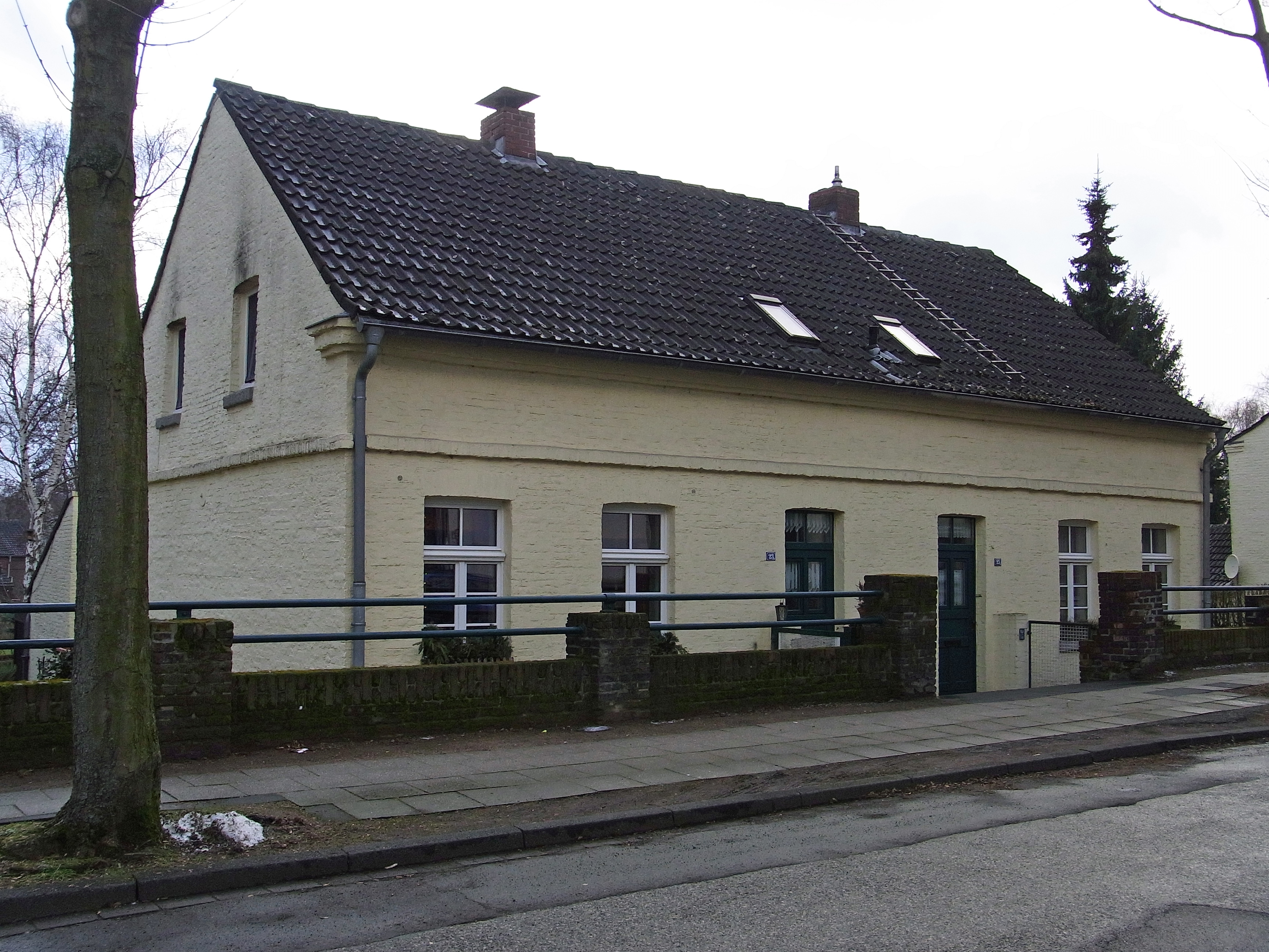 Photo output of the Tour de Ruhr of the European Capital of Culture Ruhrgebiet for the Free Travel-Shirt